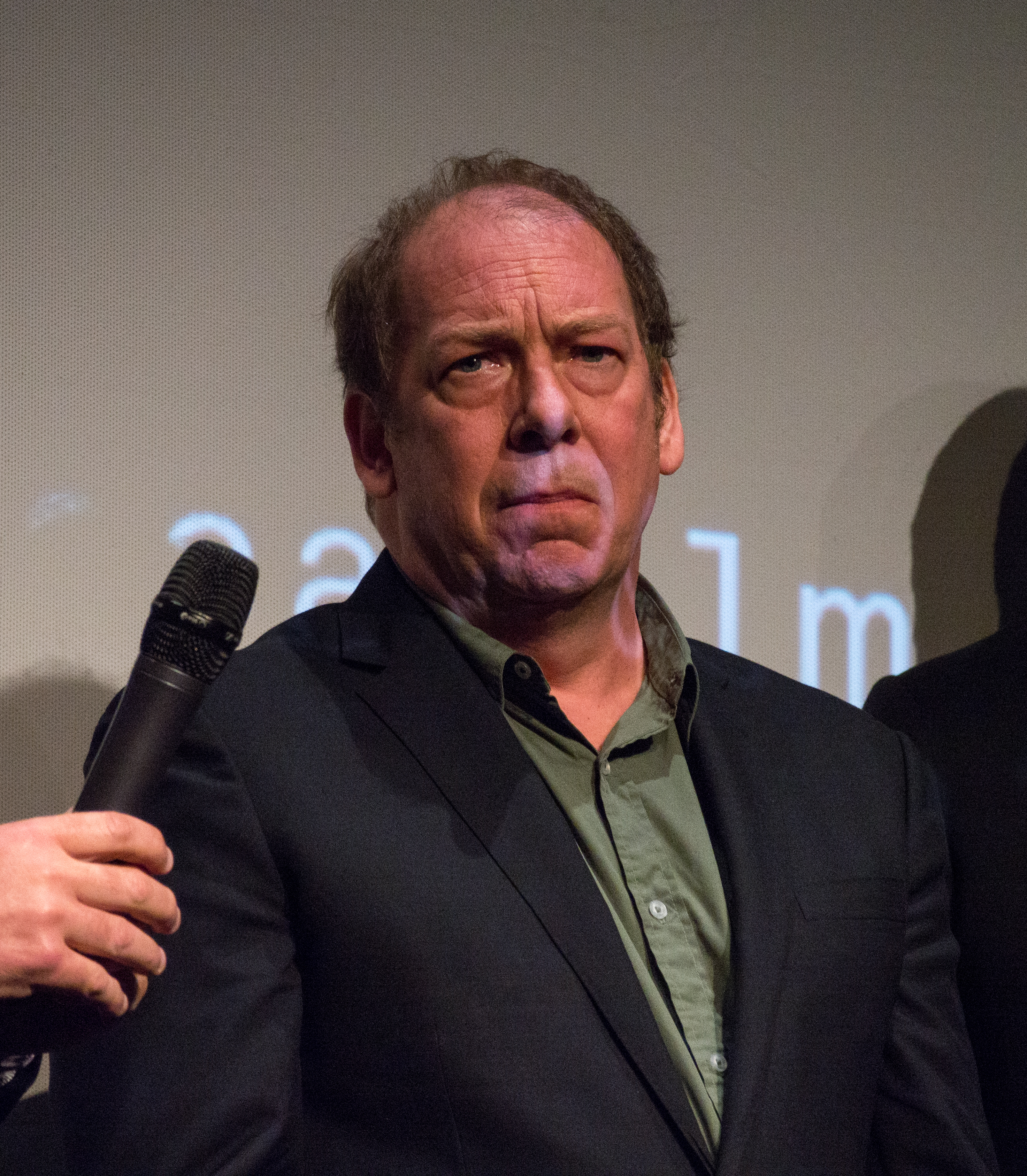 Bill Camp during the discussion following the U.S. premiere of Woman Walks Ahead at the 2018 Tribeca Film Festival.